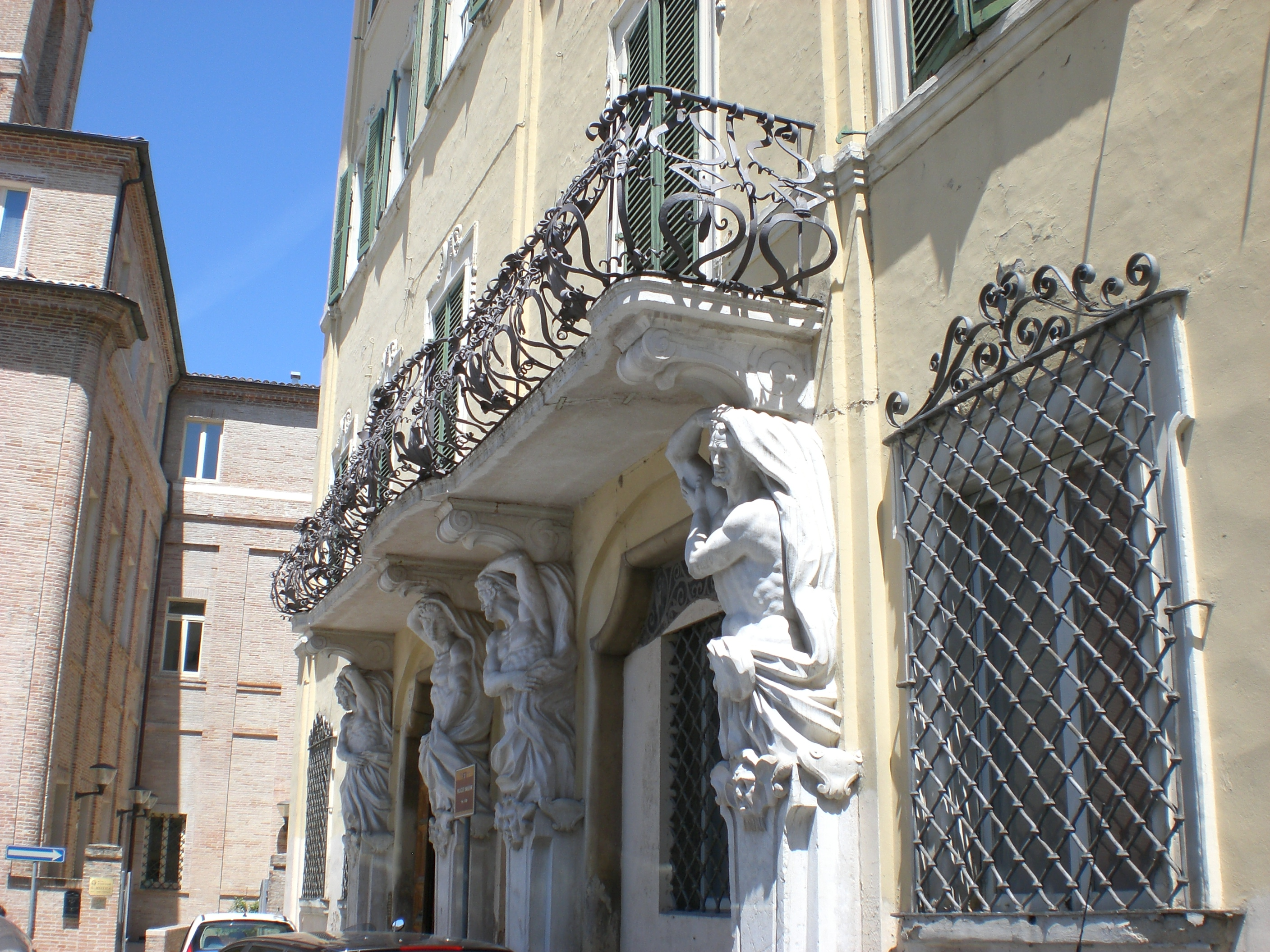 Jesi, Palazzo Balleani